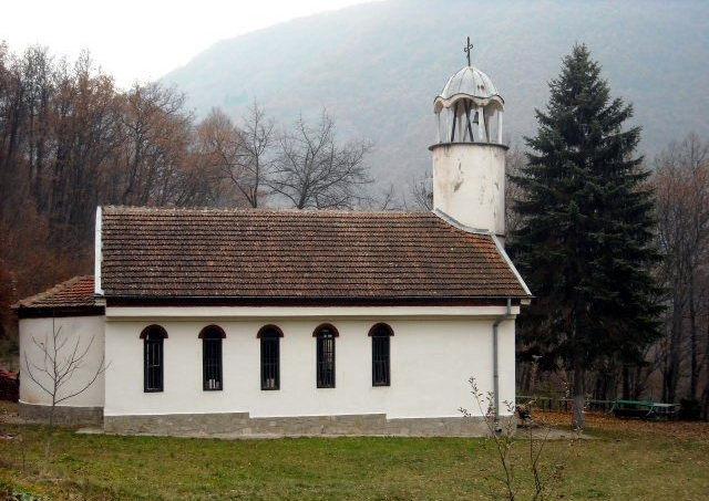 Pancharevo Monastery Church of St. Nikola, near the Urvich Medieval Fortress